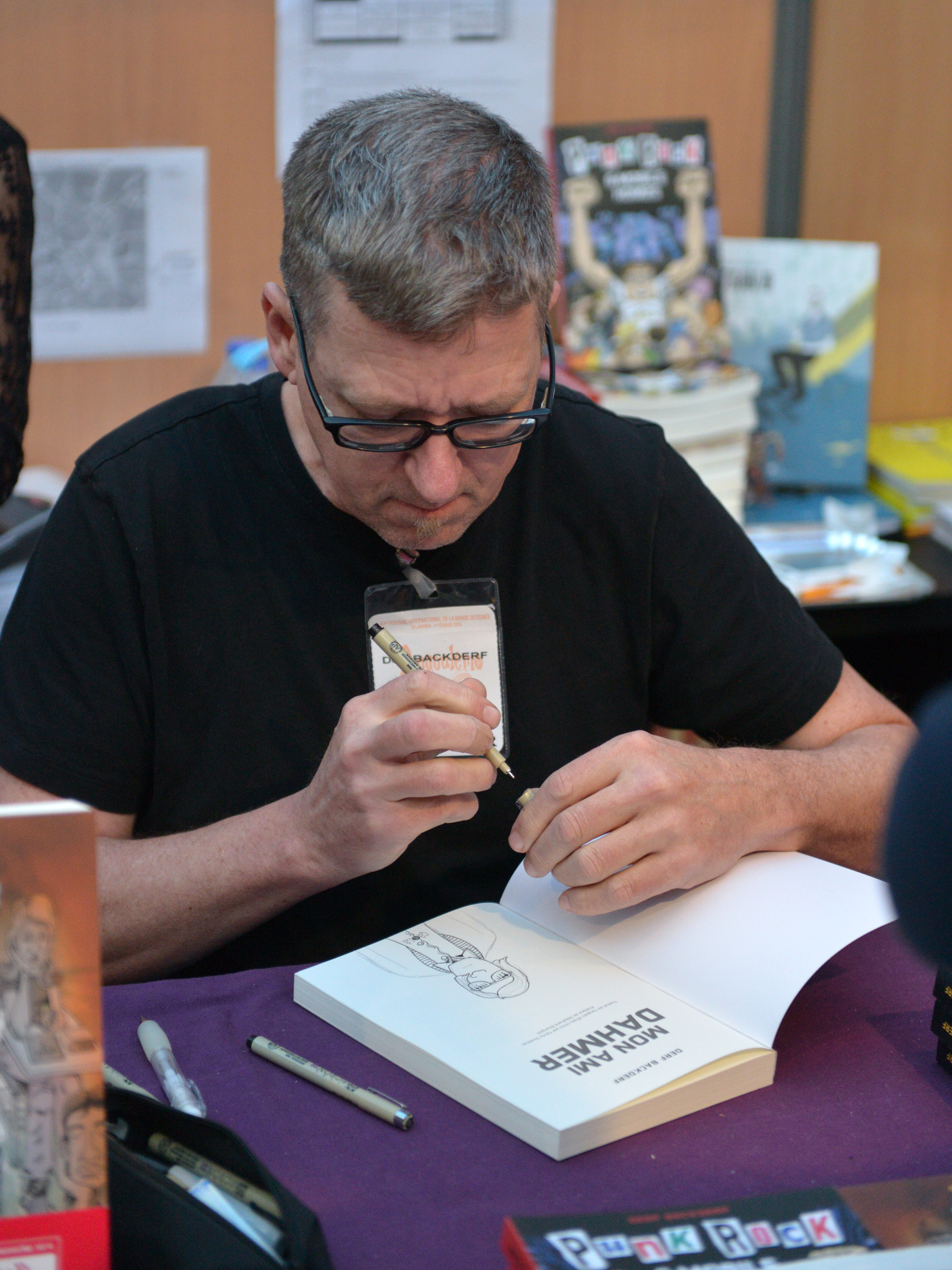 American comics artist Derf Backderf at Angoulême International Comics Festival 2015, january 2015.